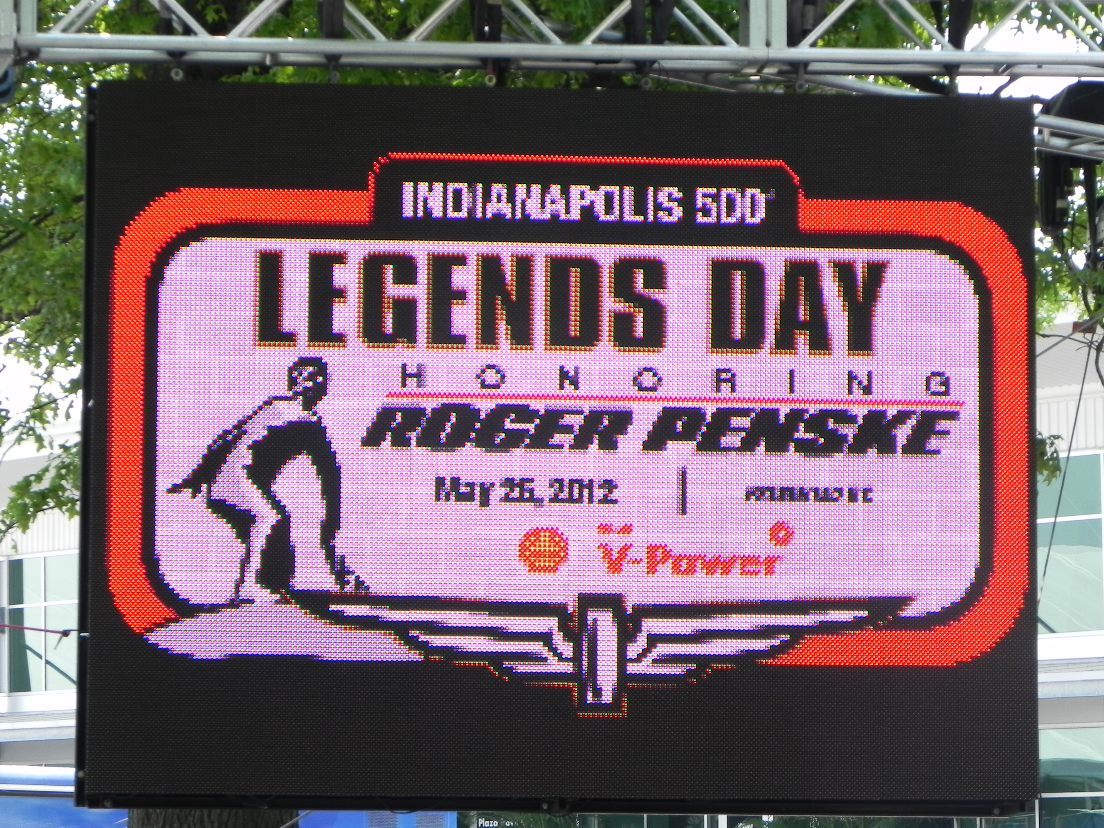 Legends Day at the 2012 Indianapolis 500